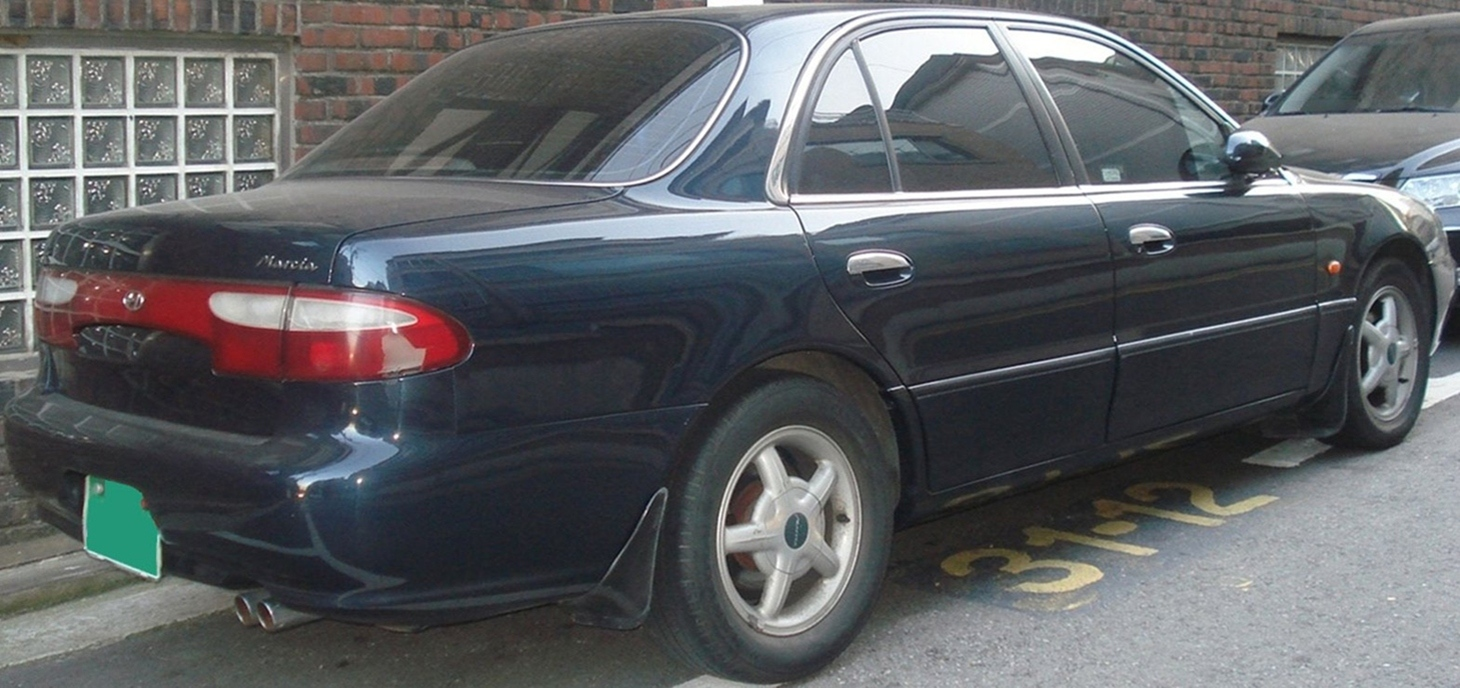 Hyundai Marcia